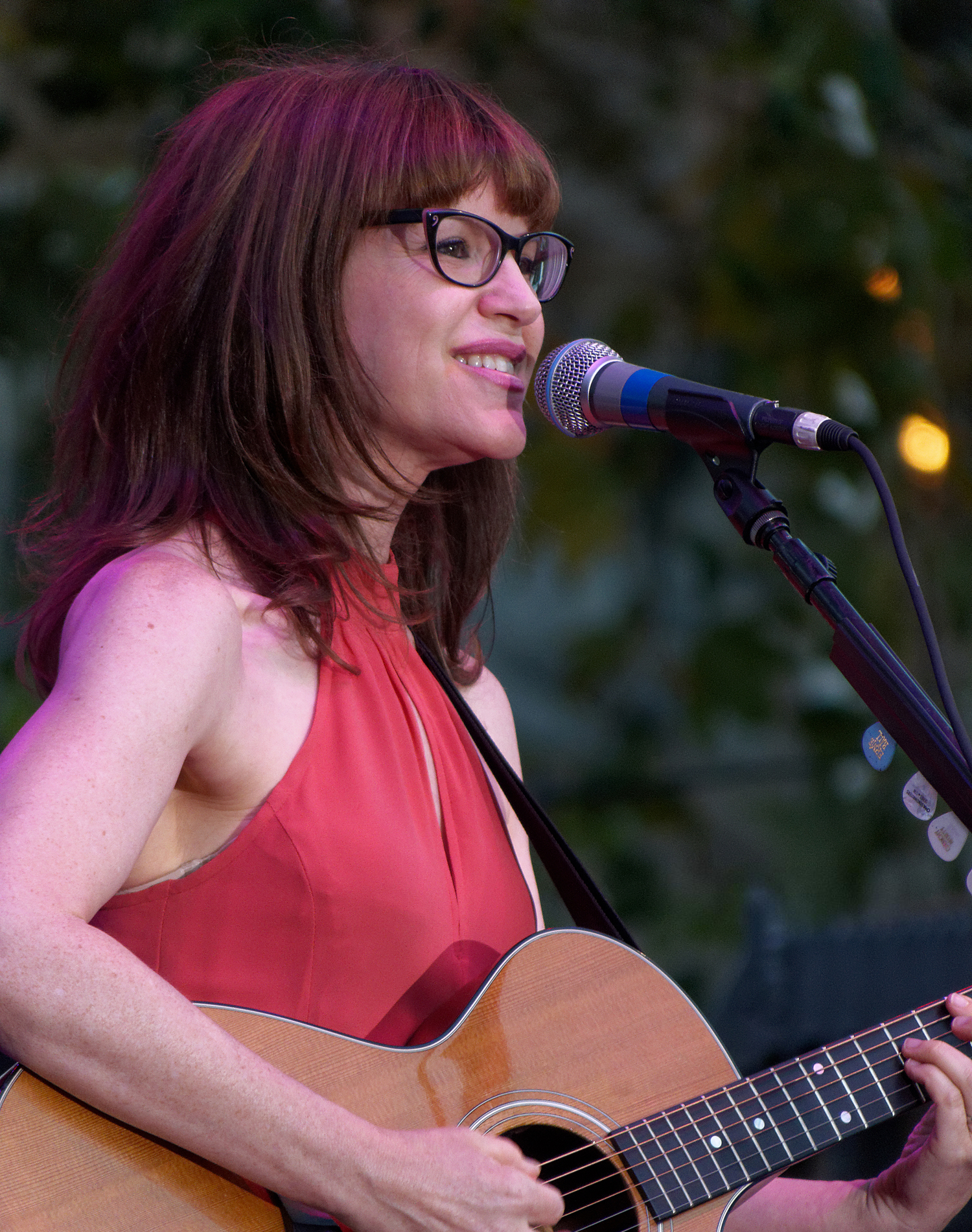 Lisa Loeb performing live at The Grove in Los Angeles California on Wednesday July 22nd, 2015. Lisa opened for the Spin Doctors at the Grove's "Summer Concert Series" presented by Citi.